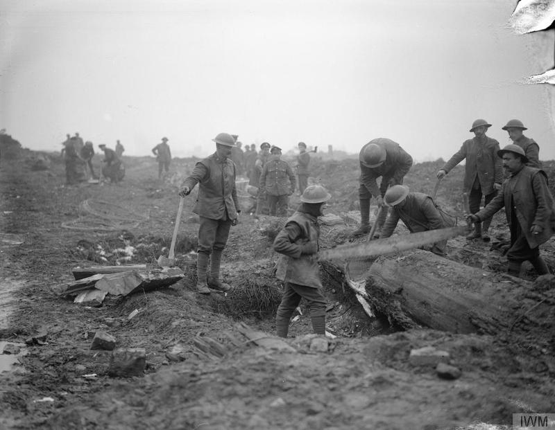 The British Army on the Western Front, 1914-1918 Pioneers removing tree stumps in preparation for track laying near Ypres, 8 January 1918.